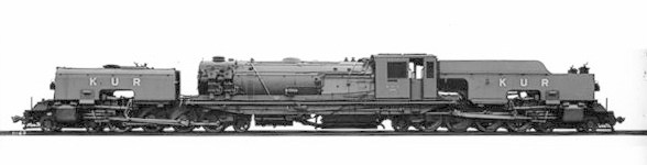 War Department standard light type '4-8-2+2-8-4' Garratt locomotive for Kenya Uganda Railway. Order No 11129. Built 1945. Factory number 7158 or 7159. War Department Number 74242 or 74243. Complete order No 11129 was 8 more locomotives of similar type, which were sent to Asia. Some became Burma Railway GD class locomotives.